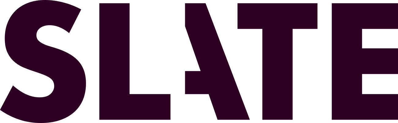 New logo